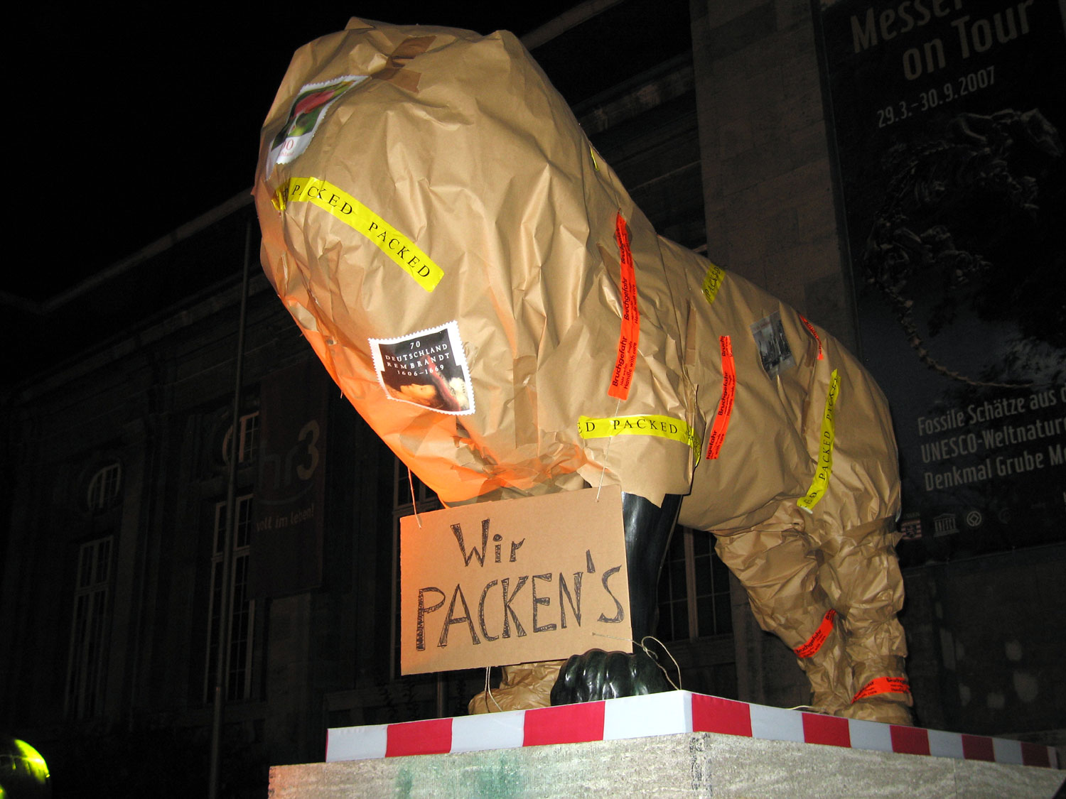 Hessisches Landesmuseum in Darmstadt